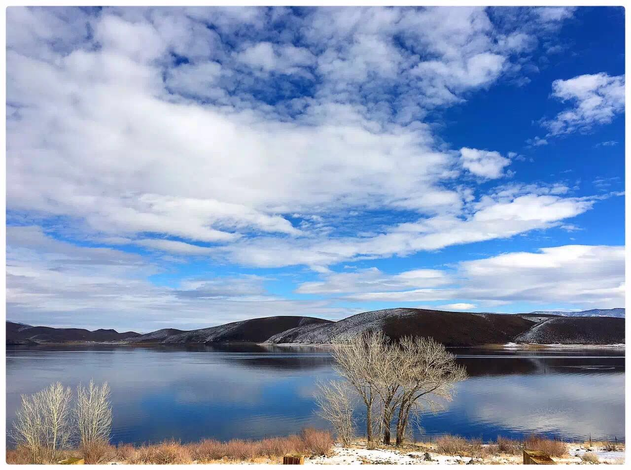 Shot taken on the route departing from Mono Lake.